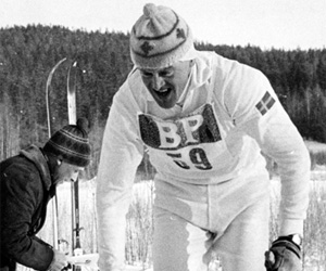 Swedish cross country skier Assar Rönnlund, 1962.